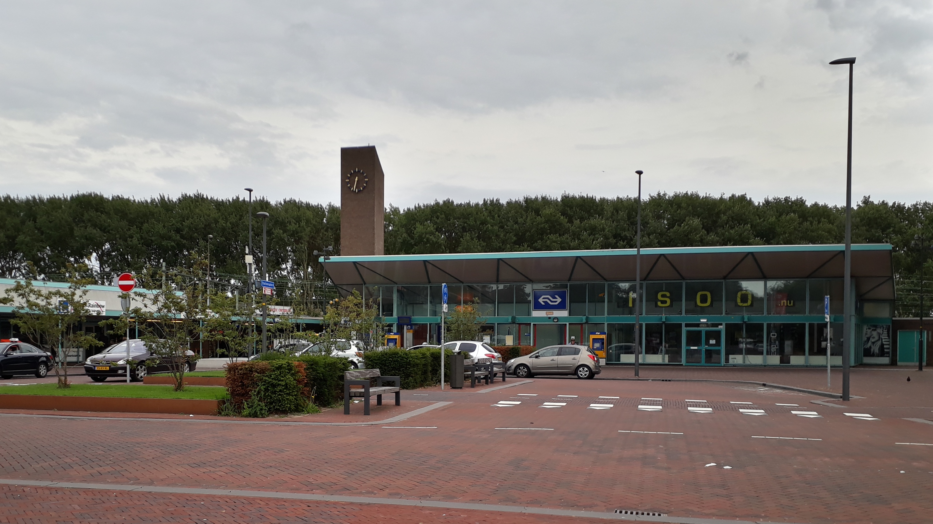 Beverwijk railway station (main building) in Beverwijk, Netherlands.